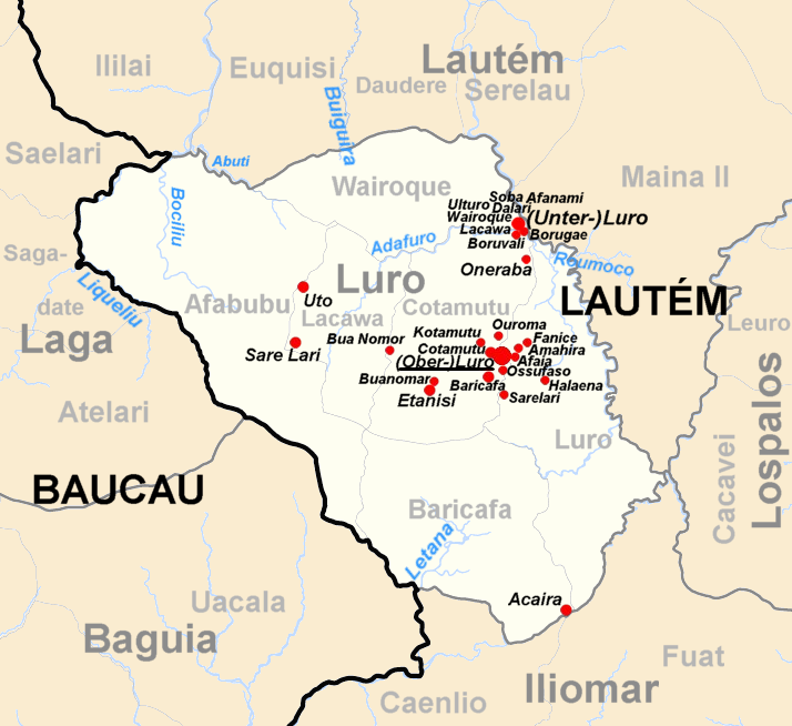 Map of subdistrict of Luro, district Lautém, Timor-Leste